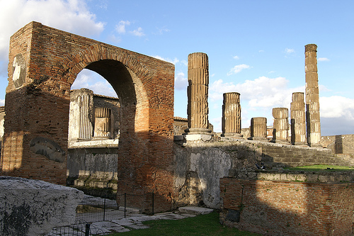 Ruins of the Temple of Jupiter in Pompeii.